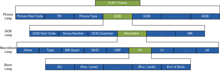 The syntax structure of a H.261 video frame